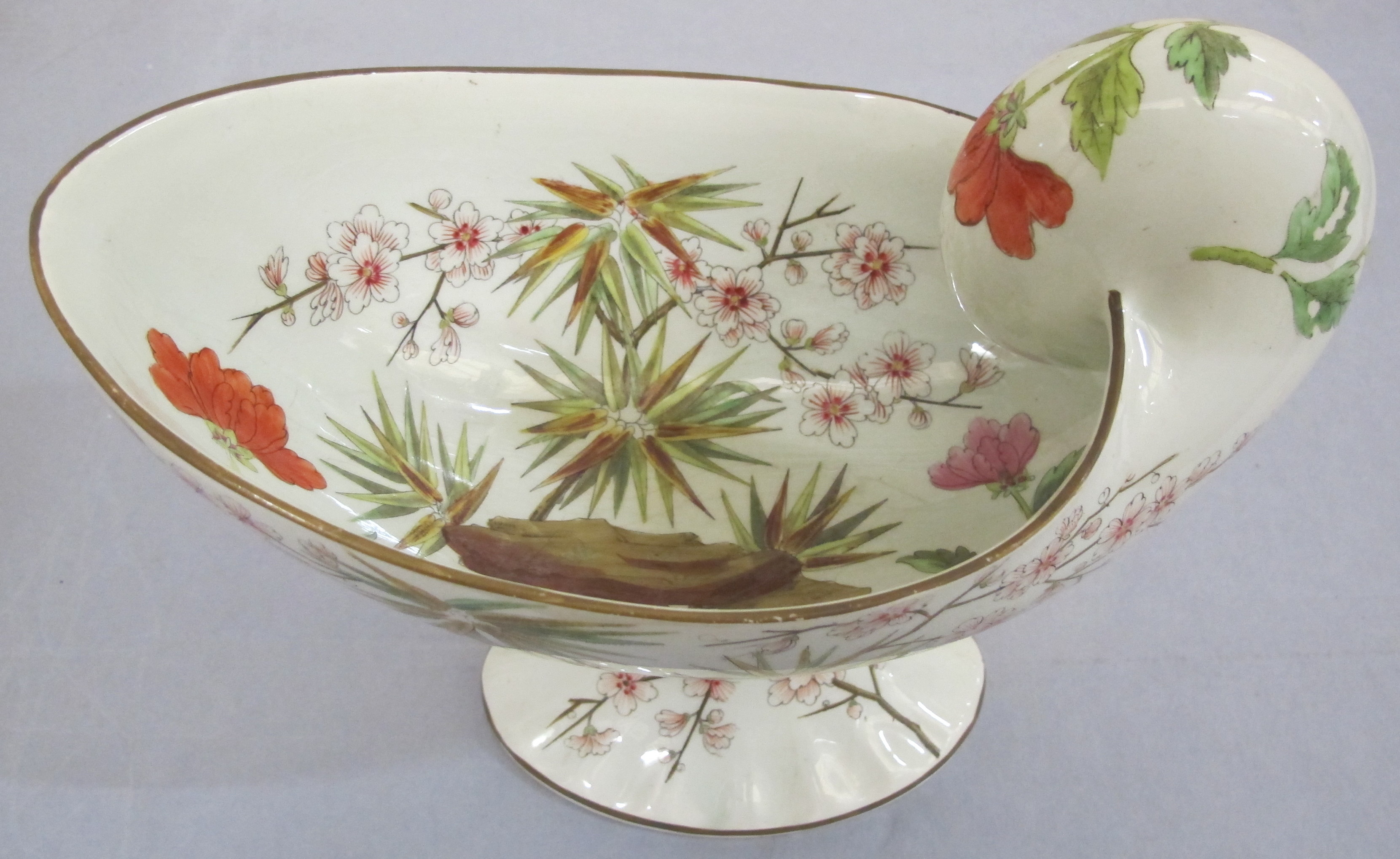 Bowl, creamware, form of a nautilus shell. bowl on pedestal stand in form of a nautilus shell decorated in a faintly Japanese style prunus peony cactus and rick scene rim in brown